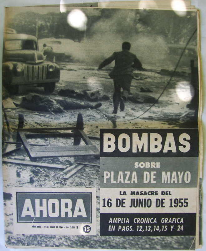 Ahora review